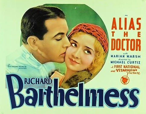 Poster del film Alias the Doctor